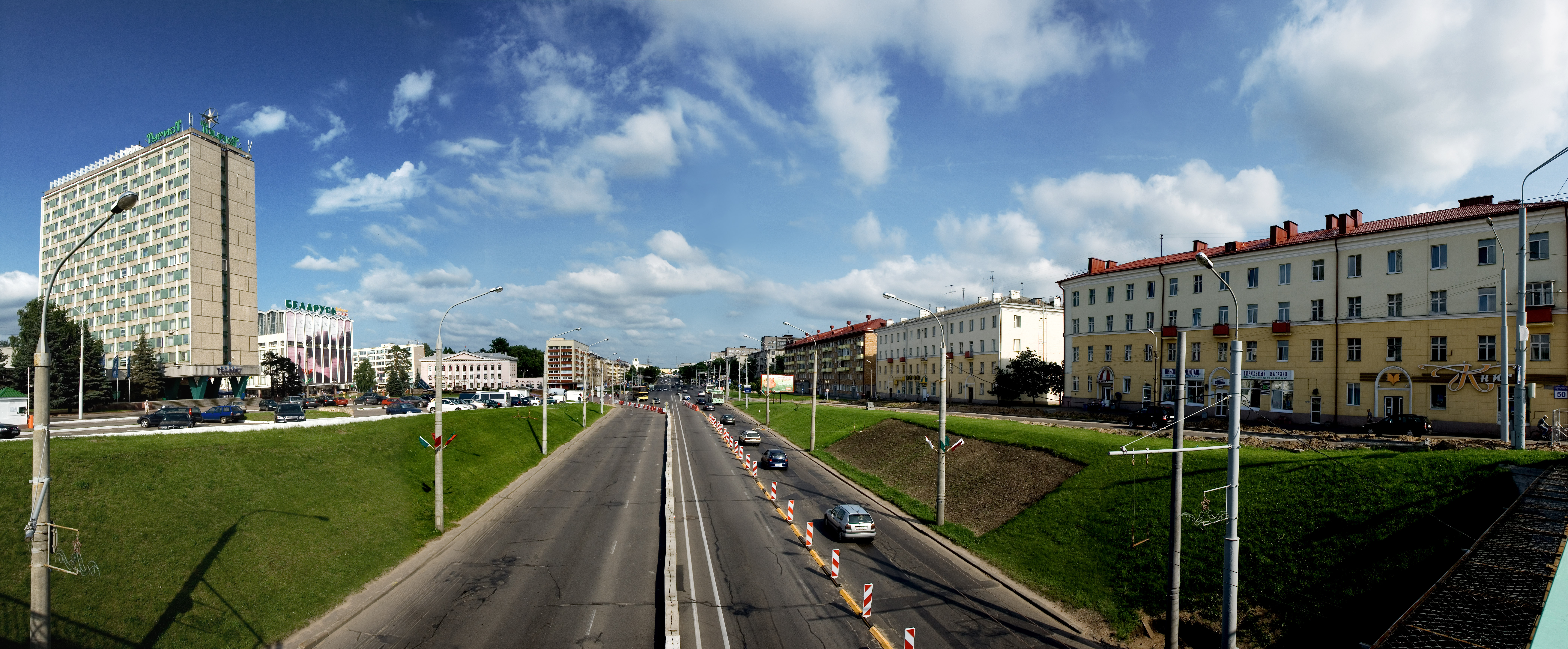 Panorama of Partyzanski ave, Minsk